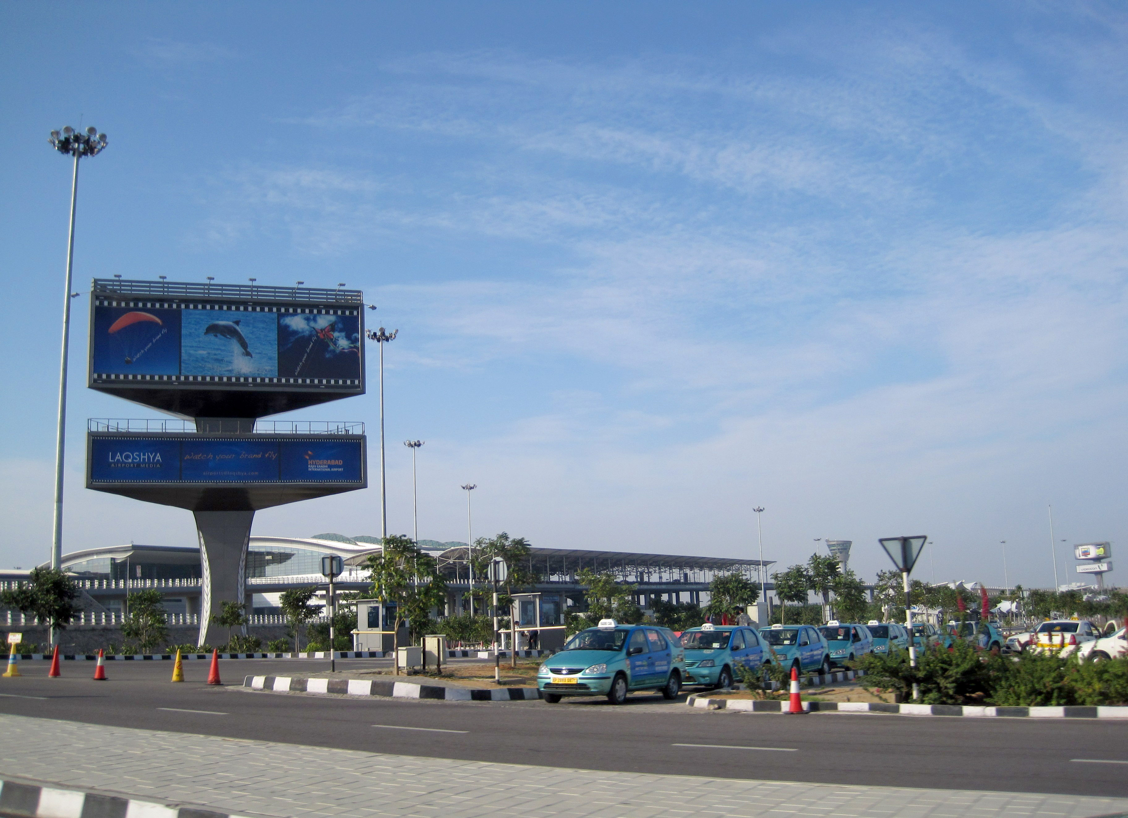 Rajiv Gandhi International Airport, Hyderabad, Andhra Pradesh (India)